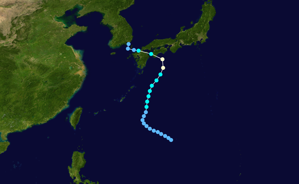 Typhoon Irving 1992 track. Uses the color scheme from the Saffir-Simpson Hurricane Scale.